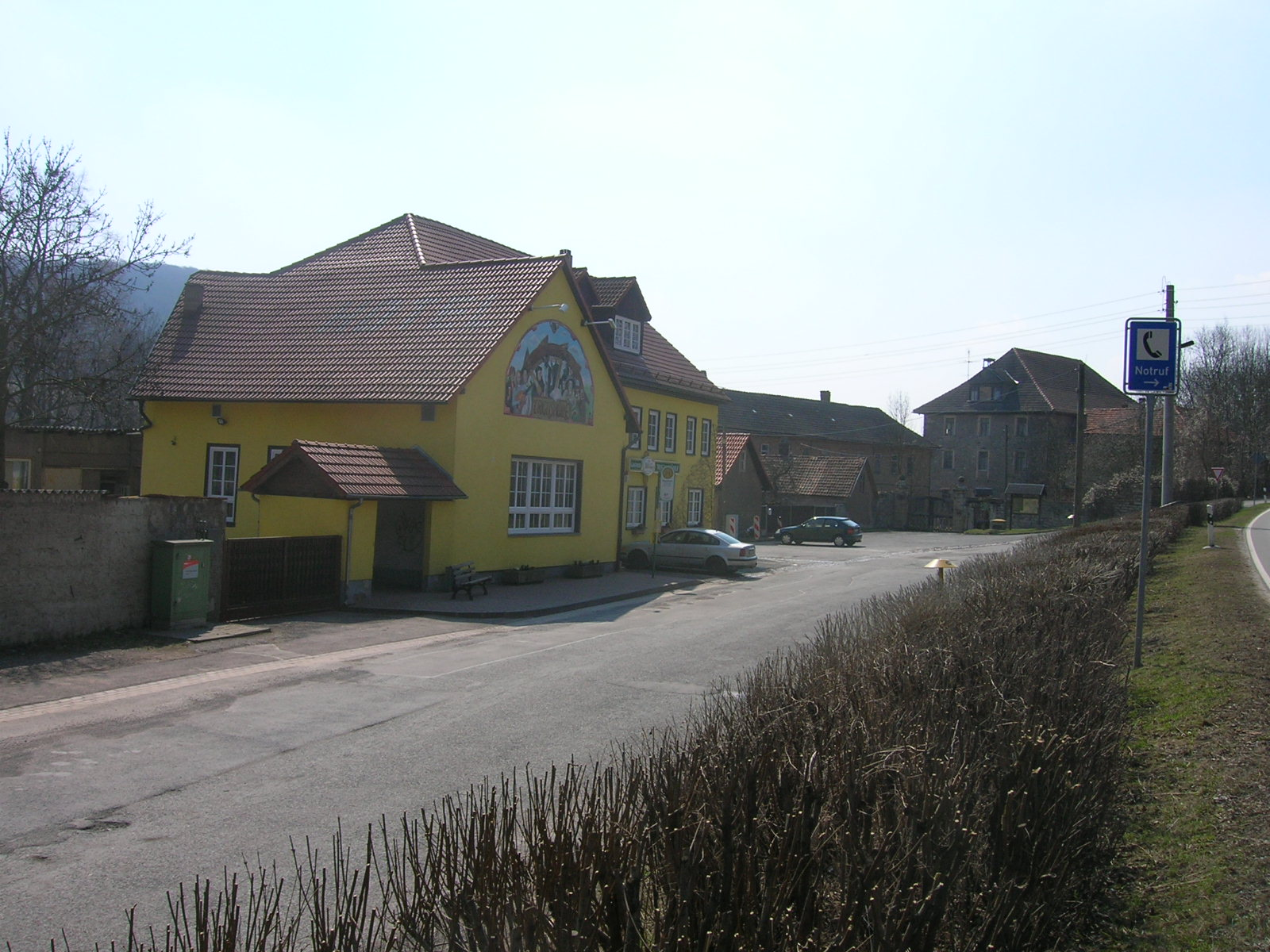 Siegelbach (district of Arnstadt), Roadhouse Triglismühle